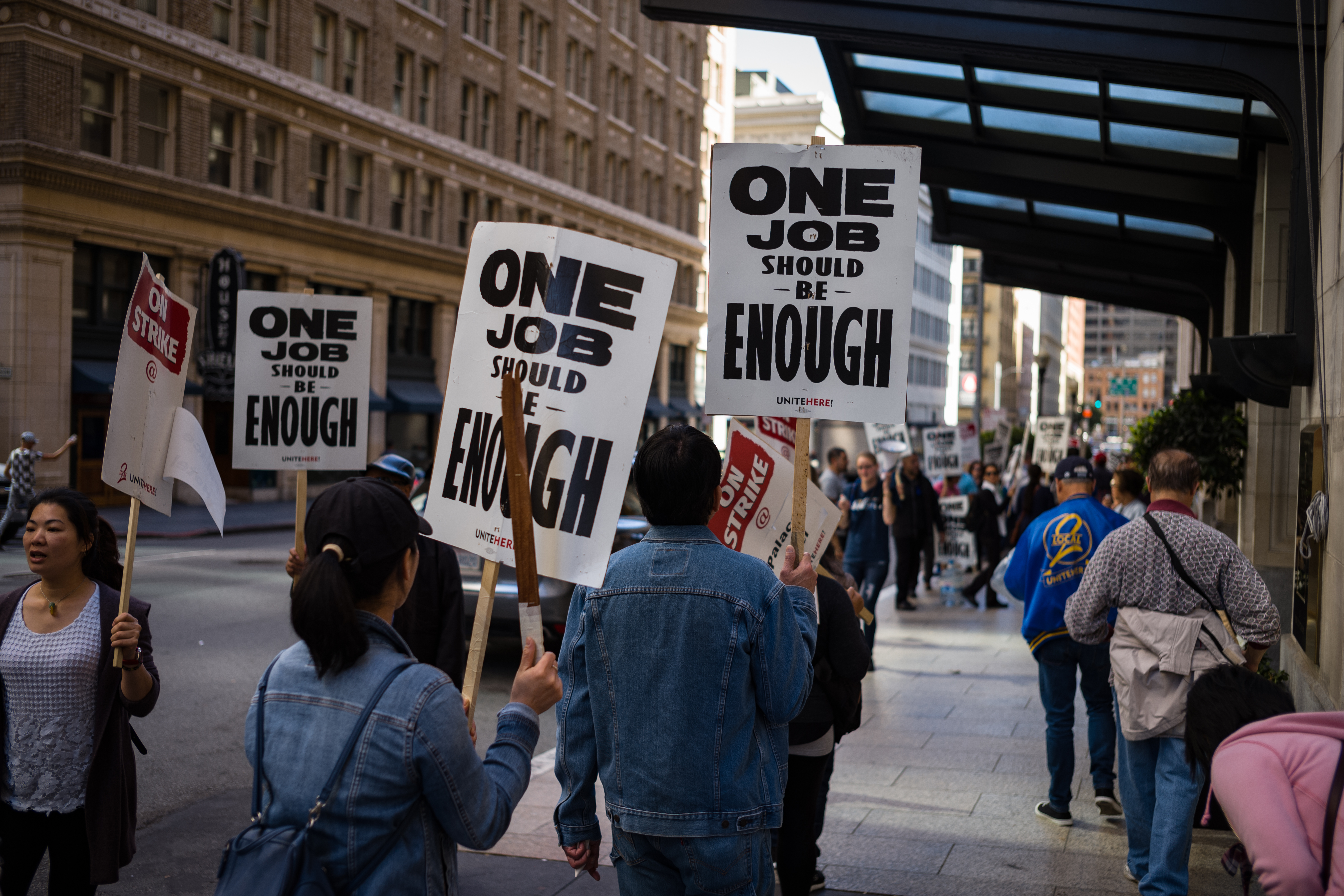 Workers of the Palace Hotel - part of Marriott Hotels - are on strike in October 2018 in San Francisco to fight for higher wages, workplace security and job safety. The hotel strikers are carrying signs which say "One job should be enough".